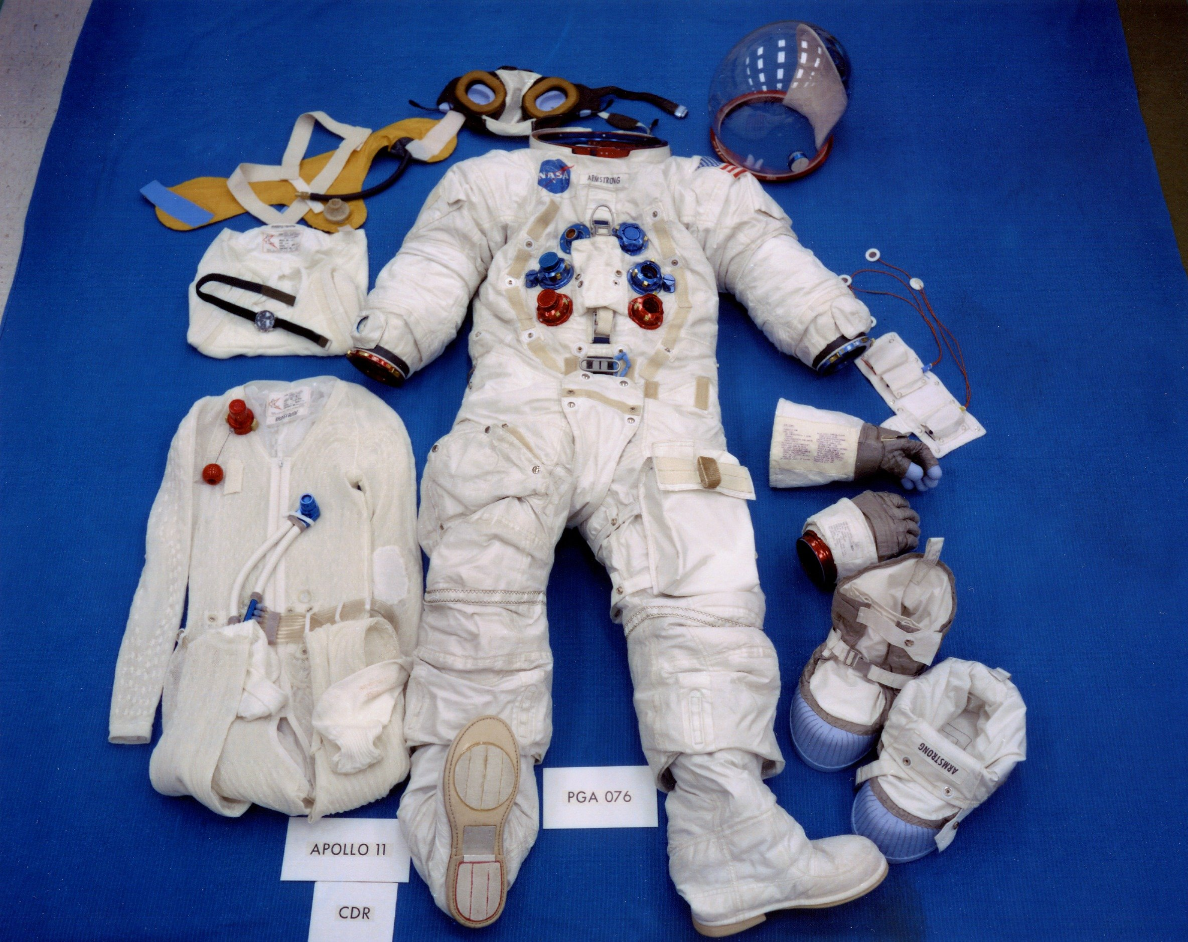 Neil Armstrong's Apollo 11 EMU displayed on a table top before the mission was flown.